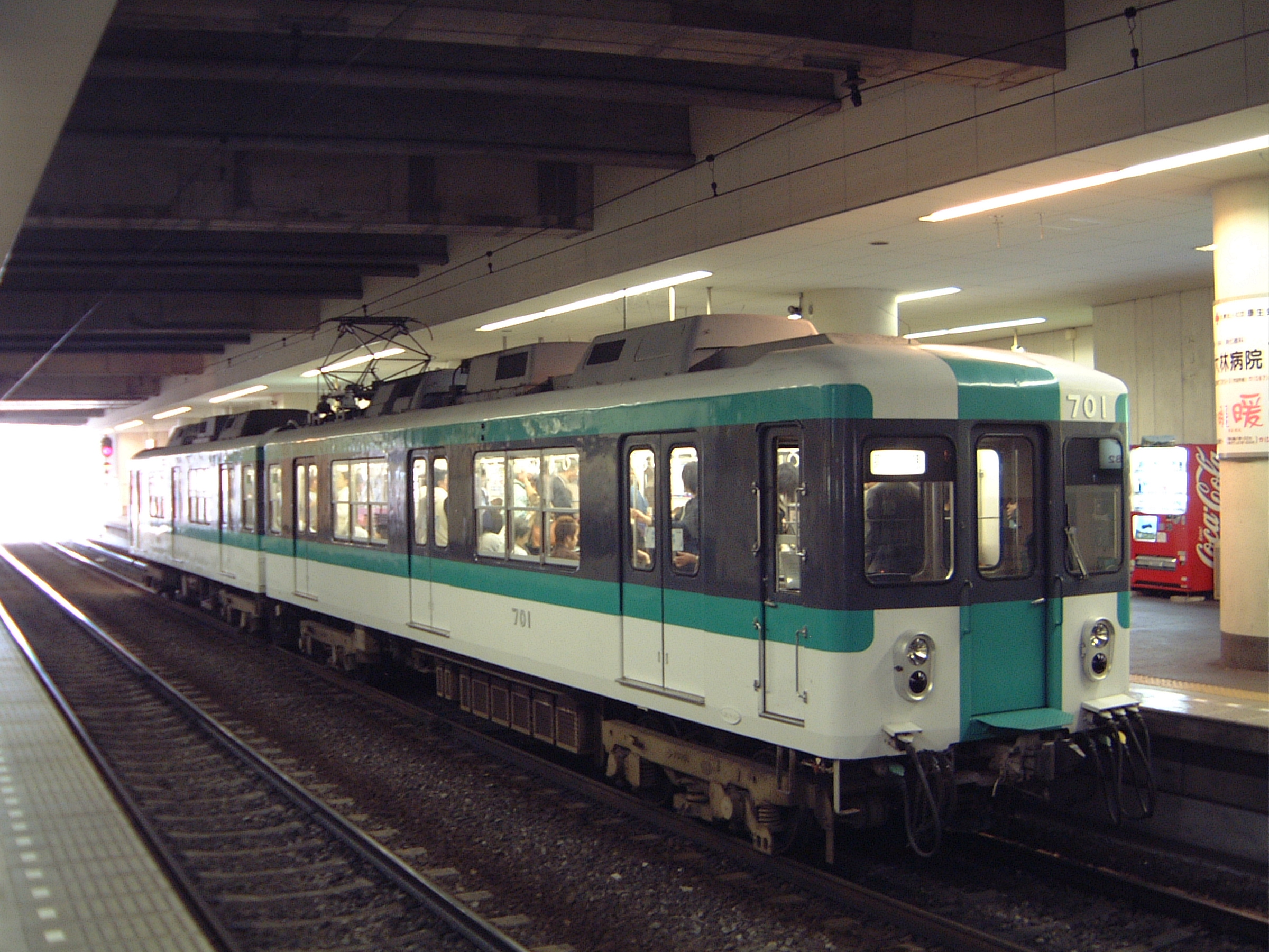 This photograph was taken at Kawaramachi station,Japan.